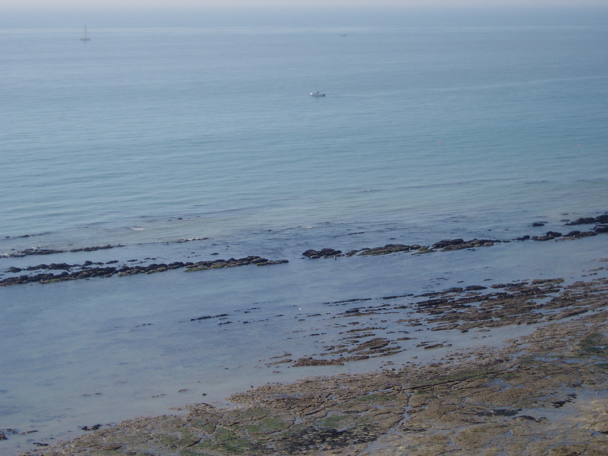 Eastbourne - Holywell showing gap in reef